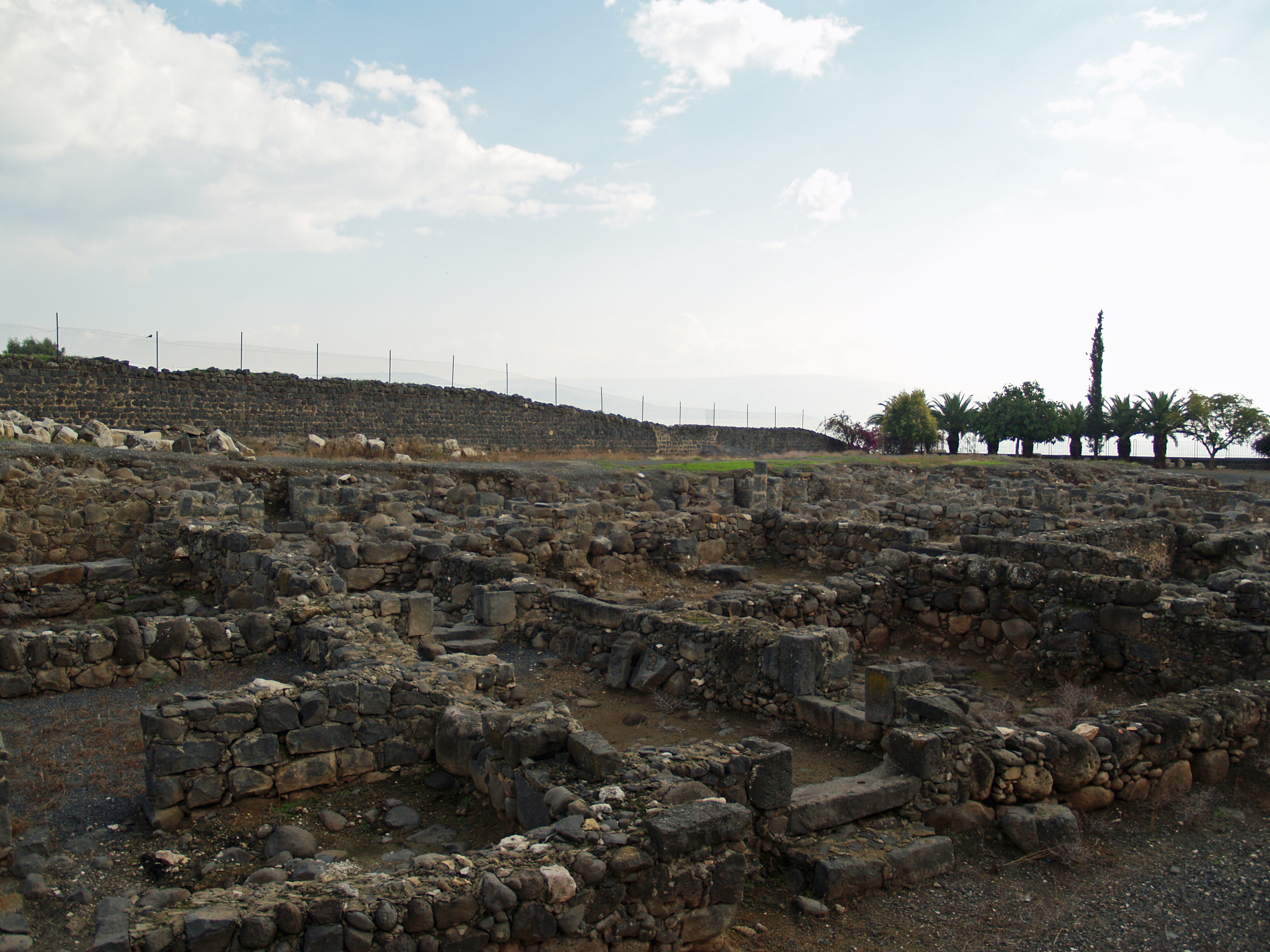 Ruins of houses in Capernaum.